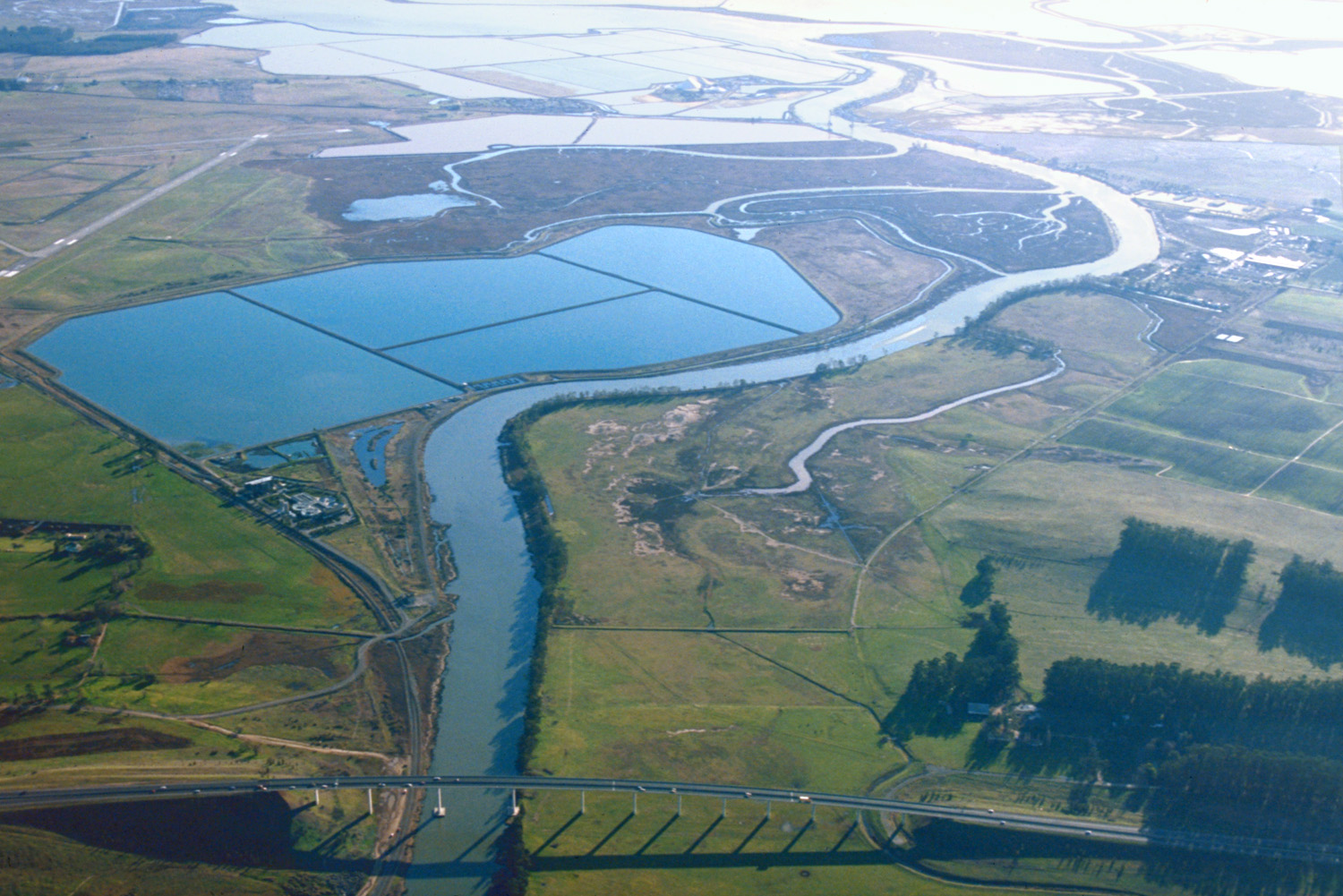 Aerial view of the southern end of the Napa River in Napa County, California, USA. The river empties into Napa-Sonoma Marsh (top) and then into San Pablo Bay at the northern end of San Francisco Bay. Most of this picture is located in Napa County. At the extreme top edge of the picture is the border with Solano County. View is to the south. Coordinates: 38°13′28.91″N 122°17′45.7″W / 38.2246972°N 122.296028°W